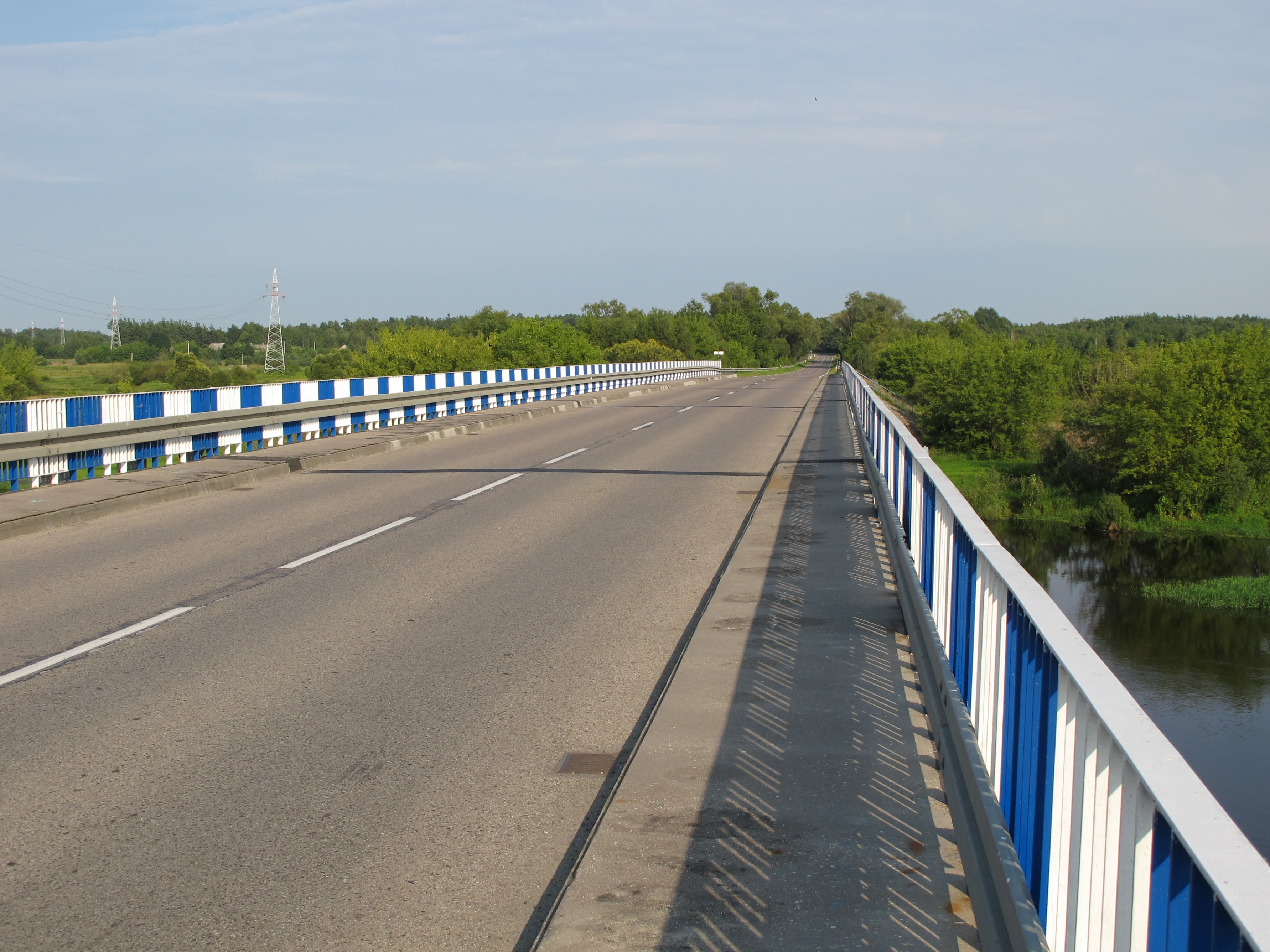 Road bridge over the Narew river on NR64 near Ruś and Witkowo villages, gmina Wizna, podlaskie, Poland